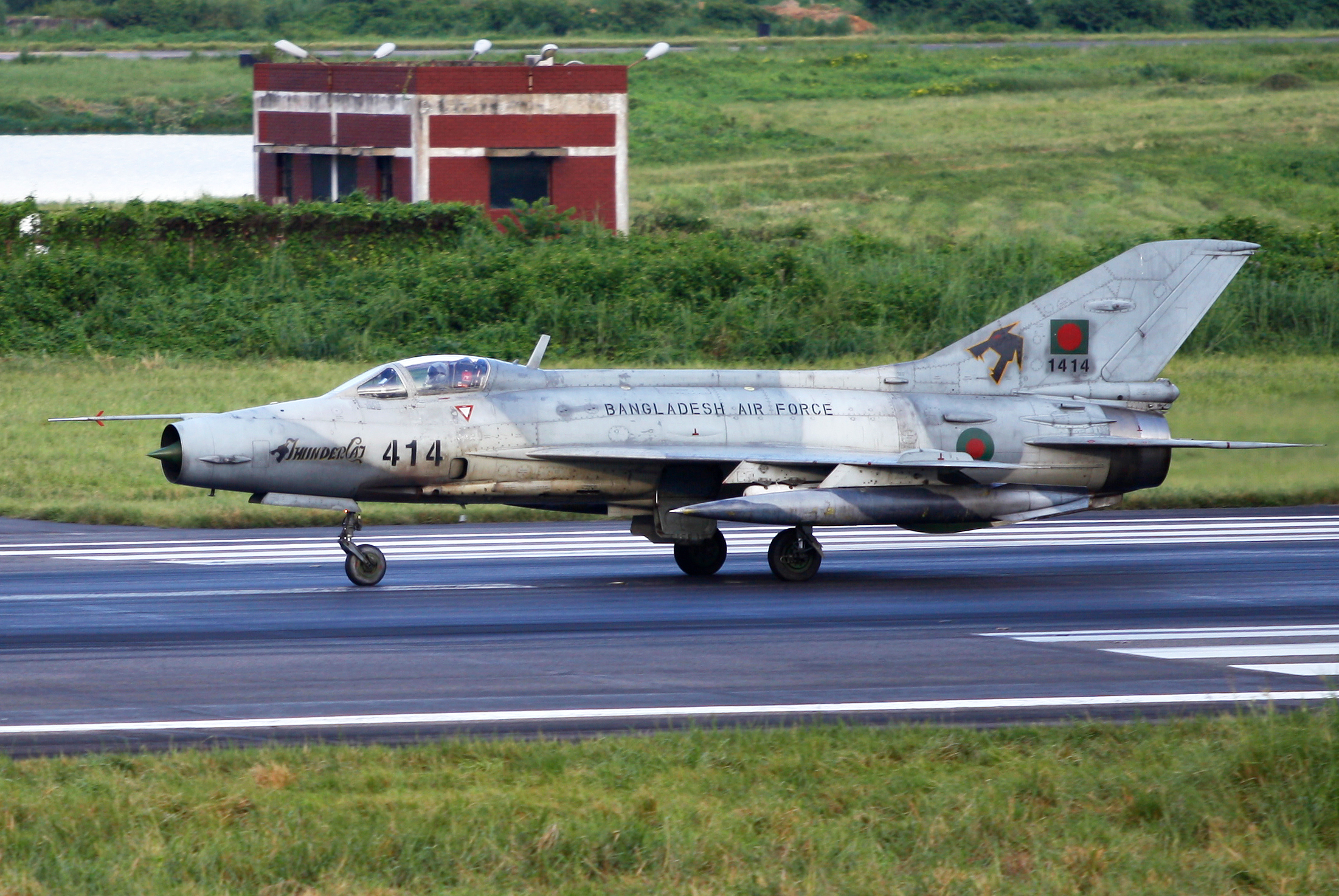 414 Bangladesh Air Force F-7 Air Guard Taxiing at Hazrat Shahjalal International Airport Dhaka VGHS / DAC